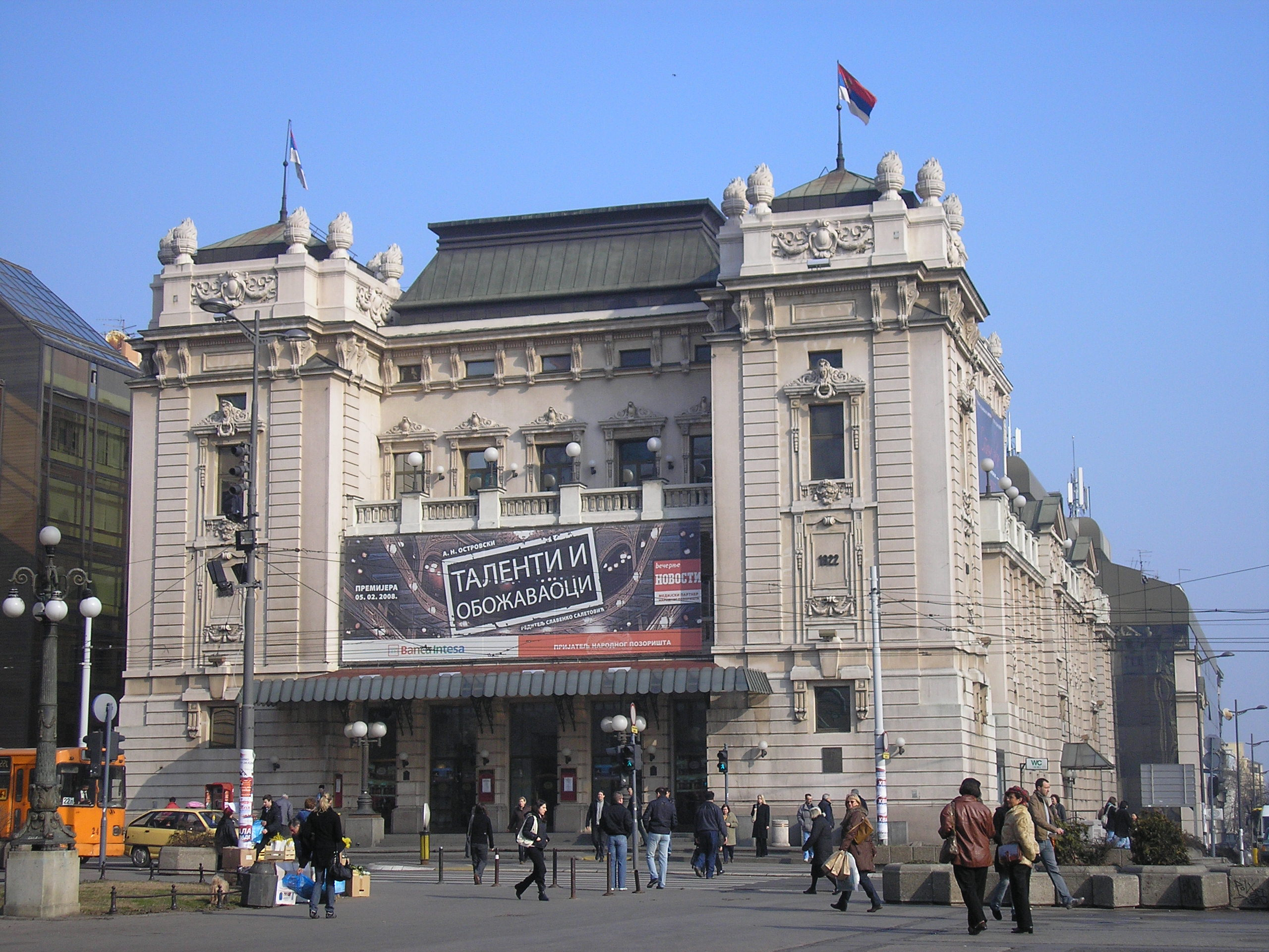 National Theater, Belgrade, Serbia